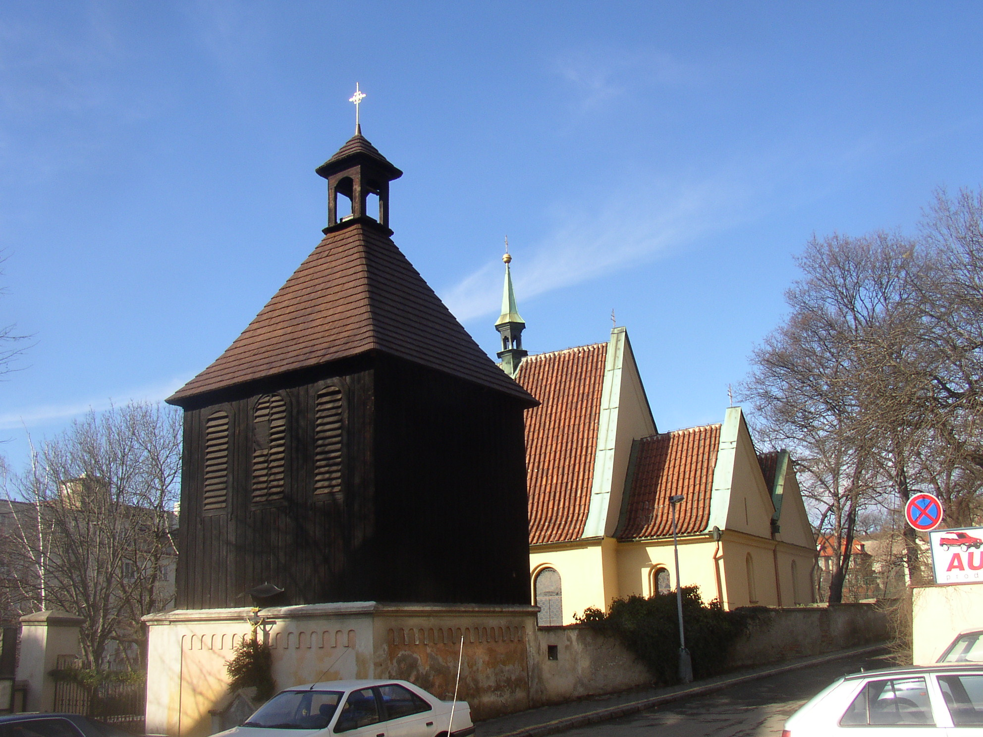 Belfry next to church of St Michael the Archangel in Prague-Podolí.